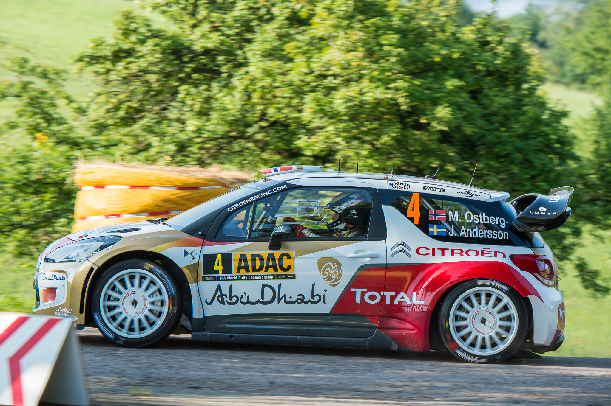 ADAC Rallye Deutschland 2014,Citroen DS3 WRC,Citroen Total Abu Dhabi WRT,Citroen Total Abu Dhabi World Rally Team,FIA,FIA World Rally Championship,Jonas Andersson,Mads Ostberg,Motorsport,Rally,Rallye,Shakedown,WRC